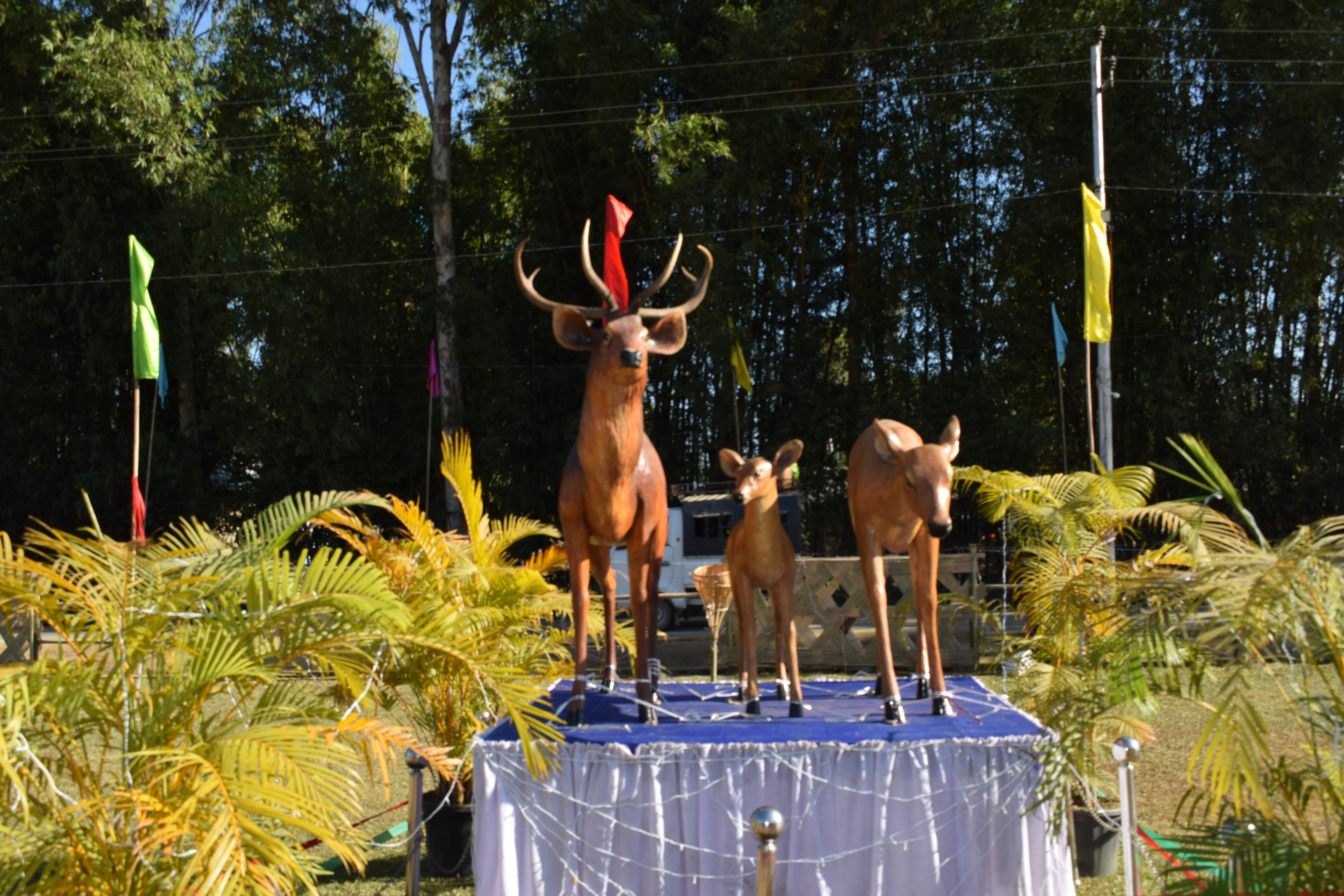 A replica of Sangai Deer (Male Female and Fawn) at Sangai Festival In Manipur